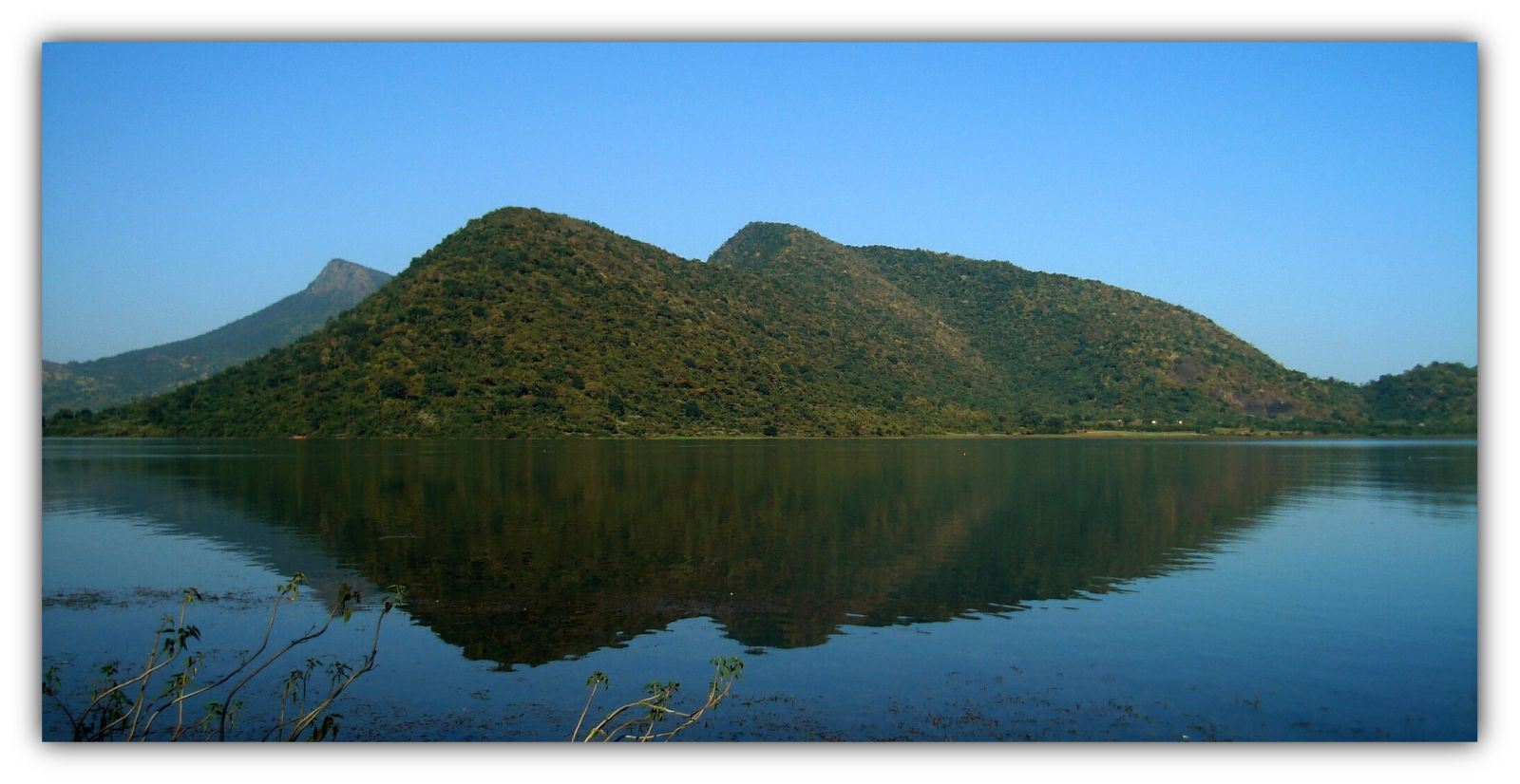 View of Eastern Ghats from Gosthani Reservoir at Tatipudi, Vizianagaram district